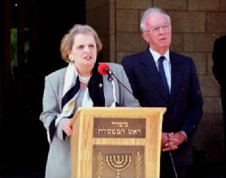 Secretary of State Madeleine Albright and Yitzhak Rabin at press conference in Jerusalem.